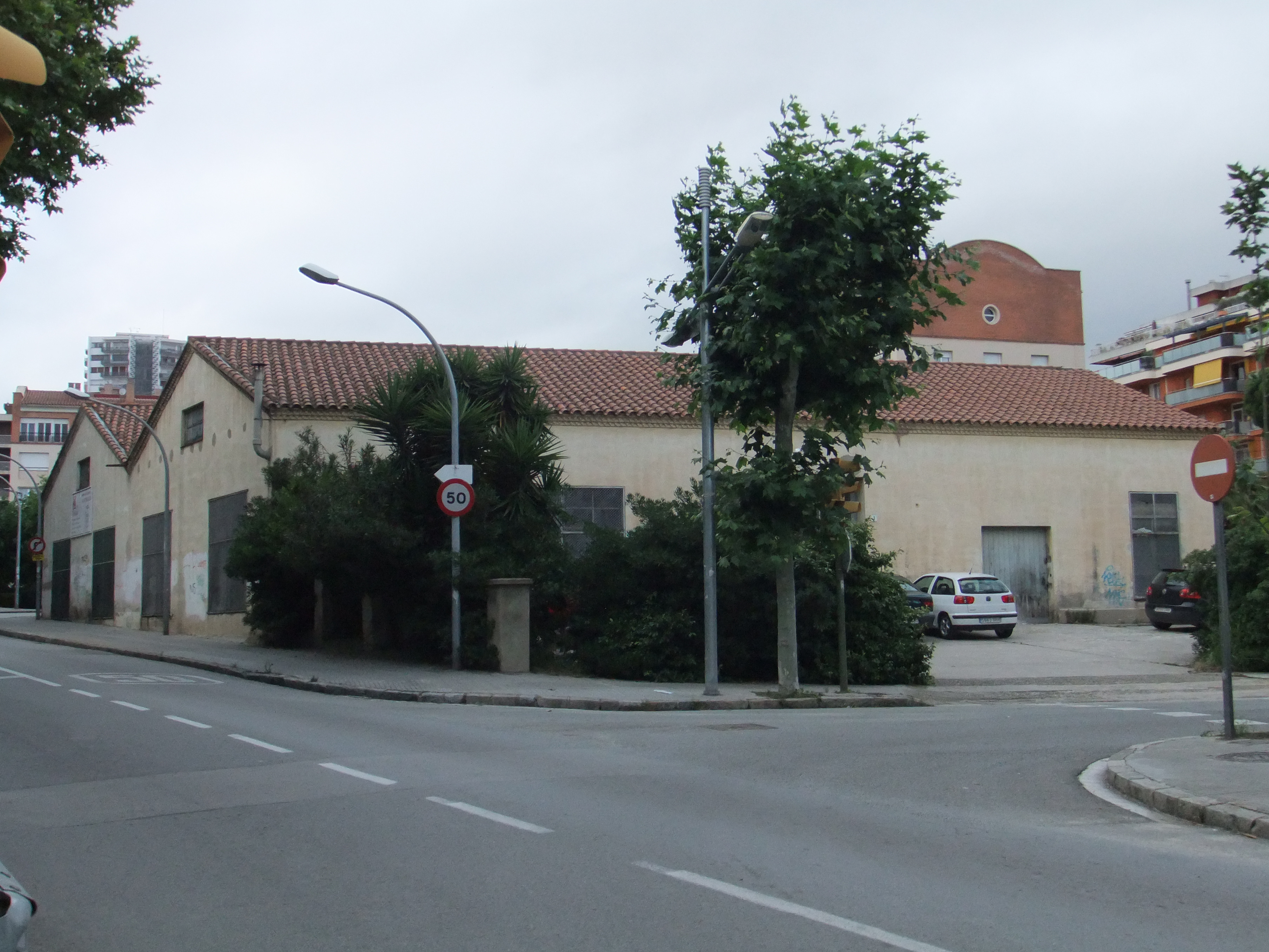 Store building of Beniamino Farina in Colom Street in Vilassar de Mar.